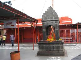 Renuka mata Mandir, Inside